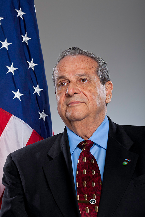 Félix Ismael Rodríguez Mendigutia (born 31 May 1941) is a former Central Intelligence Agency officer known for his involvement in the Bay of Pigs Invasion, in the interrogation and execution of Marxist guerilla Che Guevara and his ties to George H. W. Bush during the Iran–Contra affair. He is Cuban of Spanish Basque ancestry.